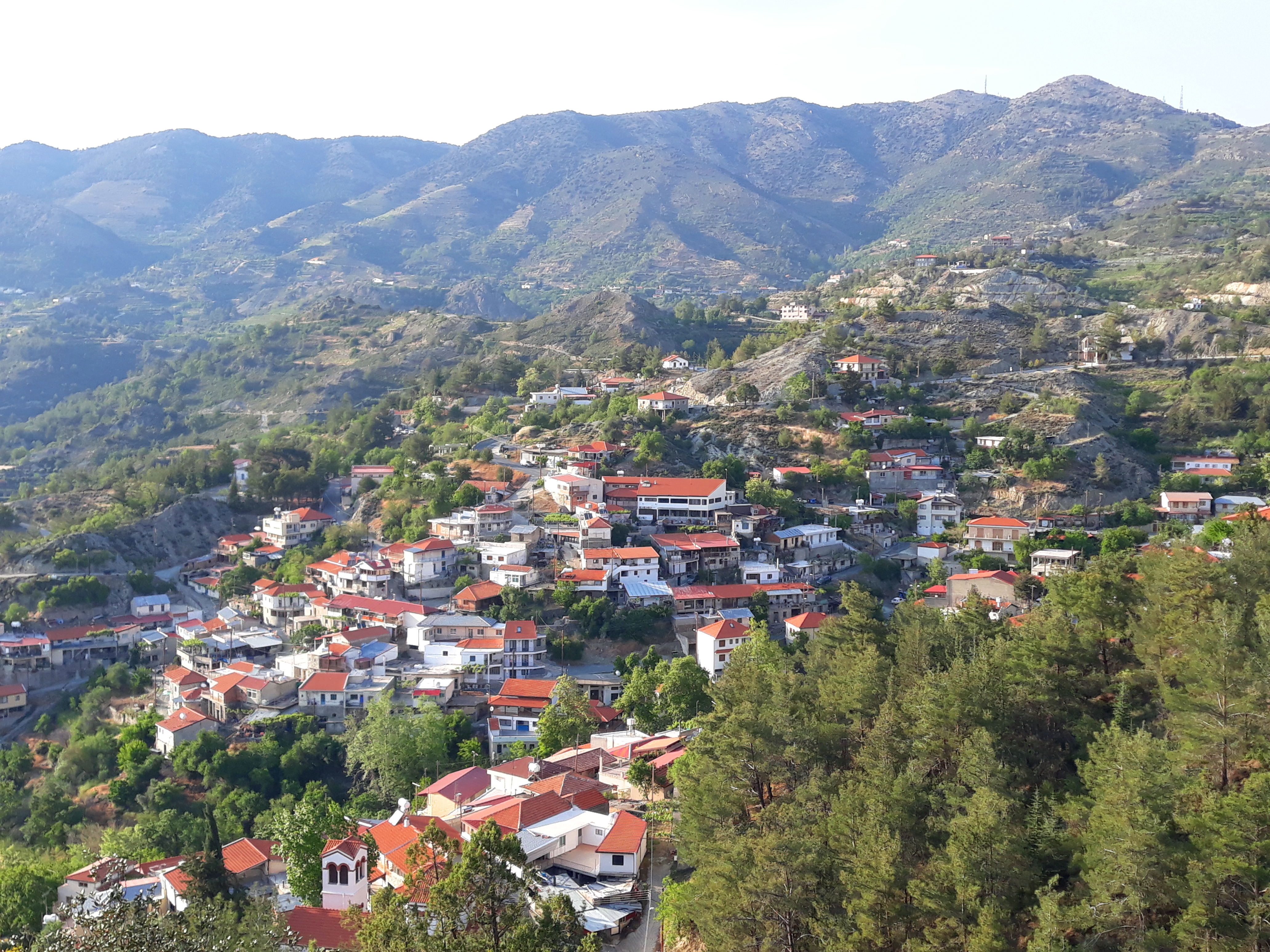 View of Agridia.